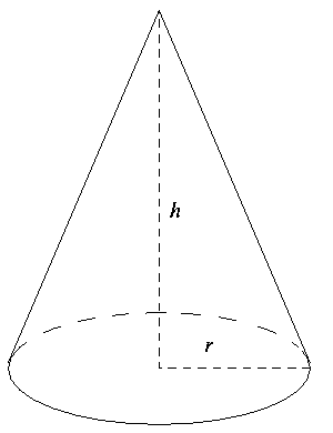 Cone (geometry).